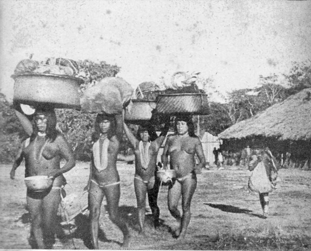 Xavante Women carrying food for the tribes invited to a funeral